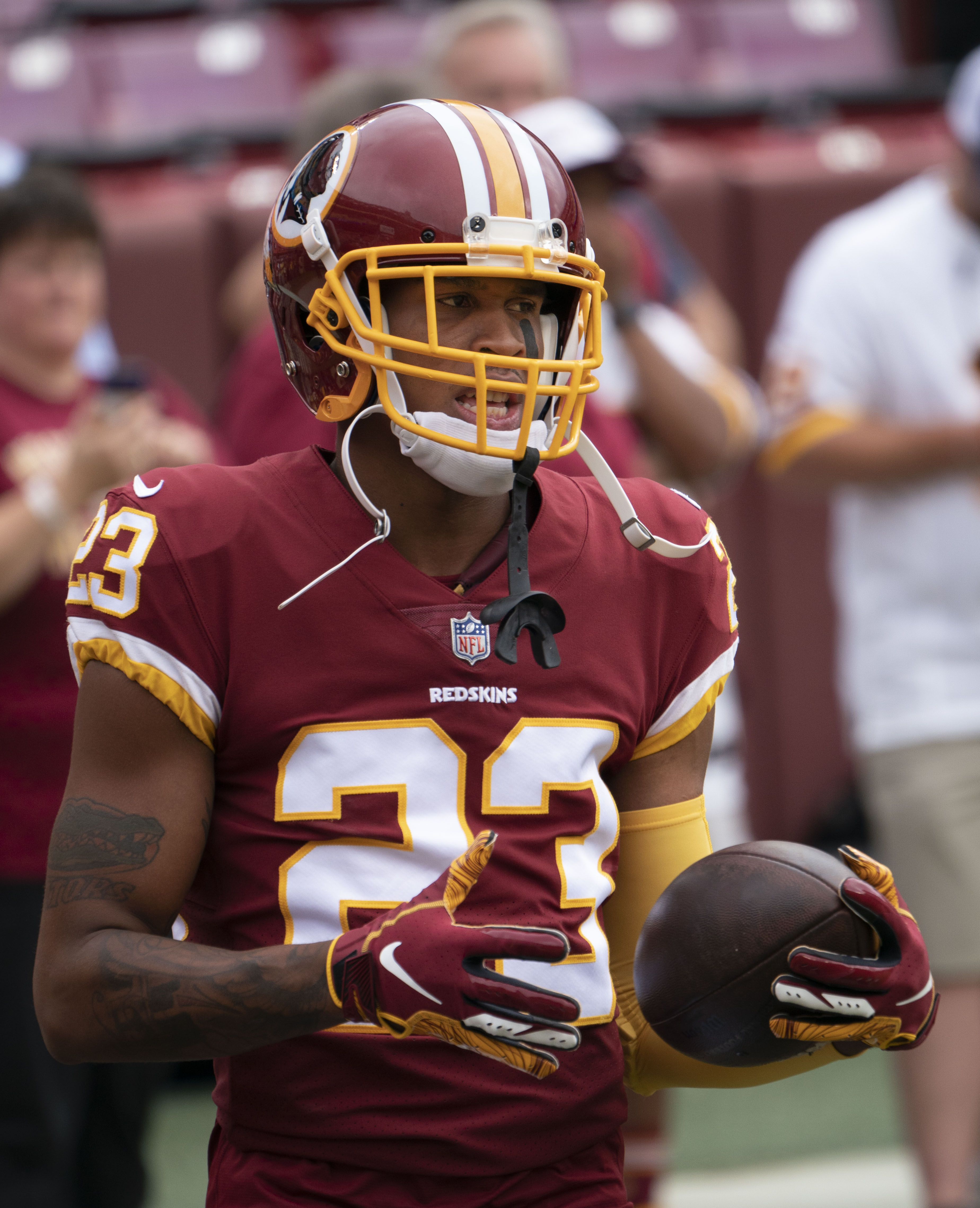 Colts at Redskins 09/16/18